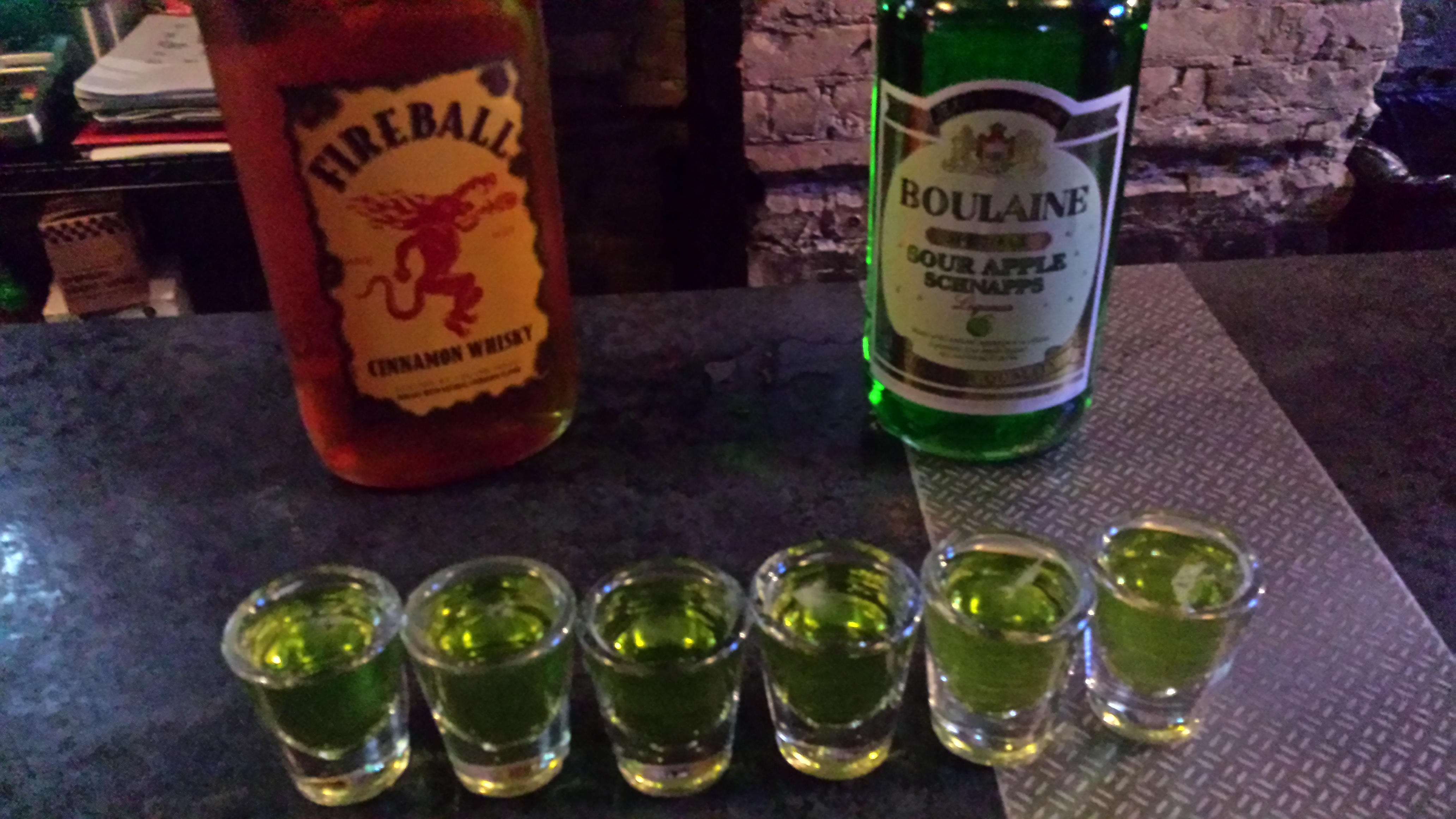 A lineup of six Antlers. Also referred to as a "6 pointer"